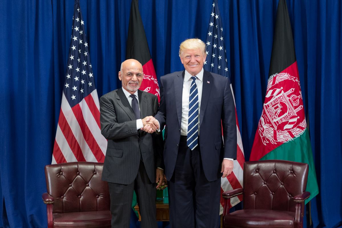 President Donald J. Trump and President Ashraf Ghani of Afghanistan at the United Nations General Assembly (Official White House Photo by Shealah Craighead)